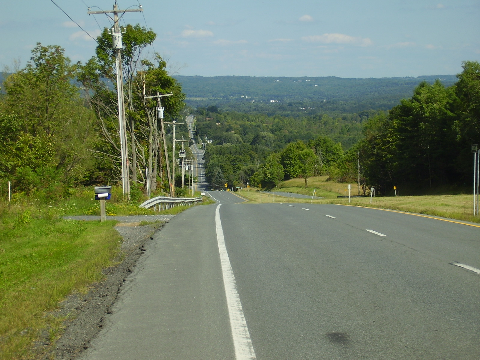 US Route 20, stretching westward to Newport, Oregon...